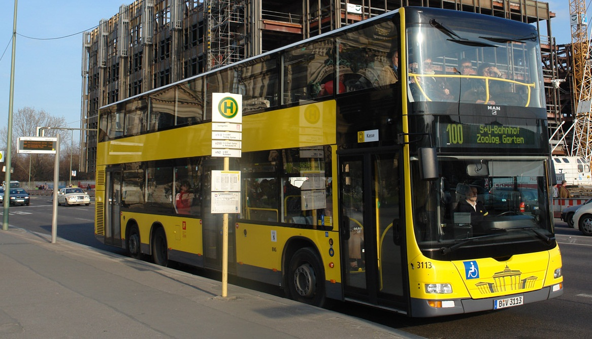 NEOMAN A39 double decker Bus in Berlin